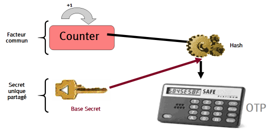 Authentification forte OTP de type Counter Based